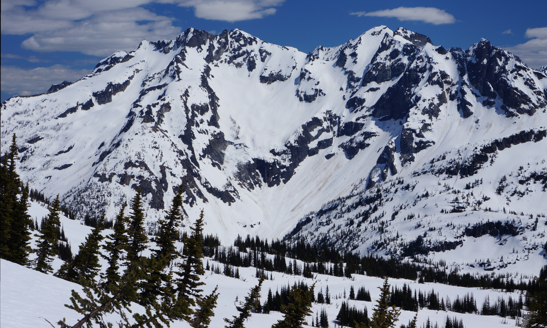 Greenwood Mountain (left) and Dumbell Mountain seen from Cloudy Pass area of the North Cascades of WA state